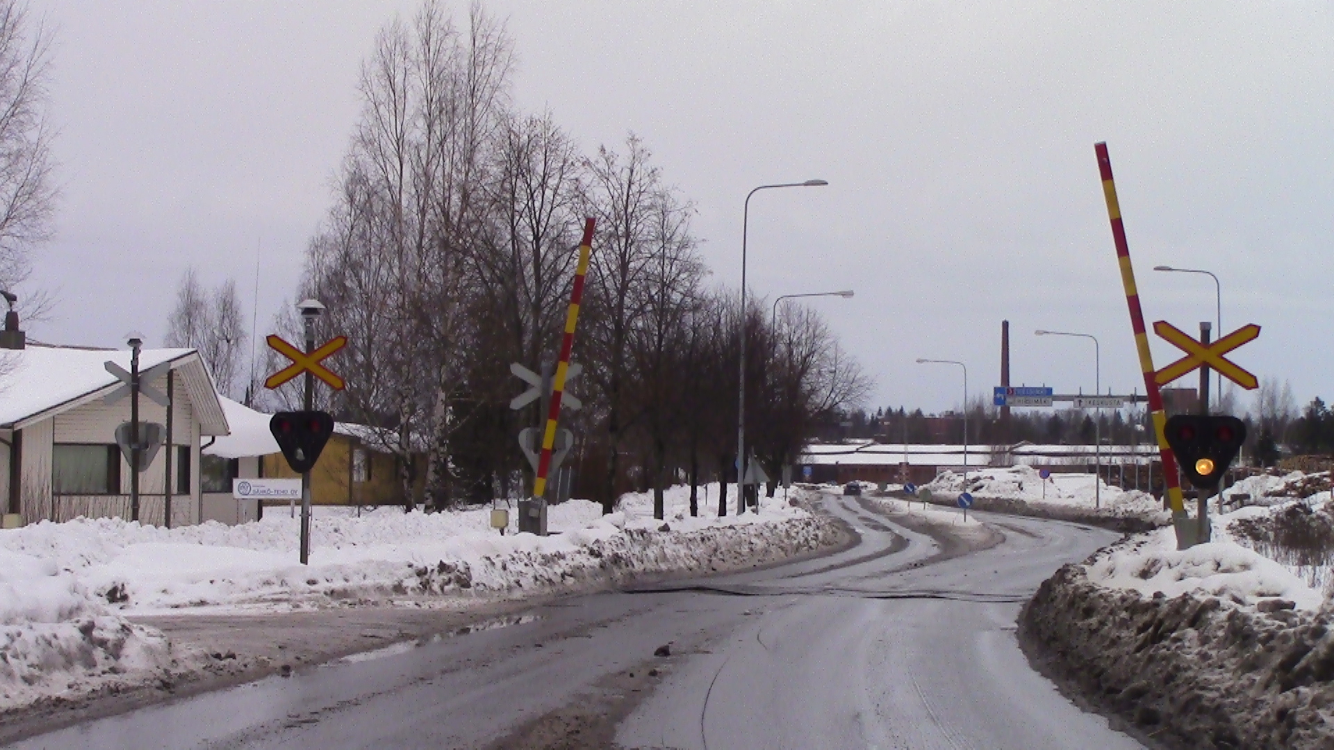 Finnish connecting road 2850 at the railroad crossing of Stena's industrial rail in Riihimäki. The road runs from Riihimäki to Hyvinkää and It's very highly travelled.